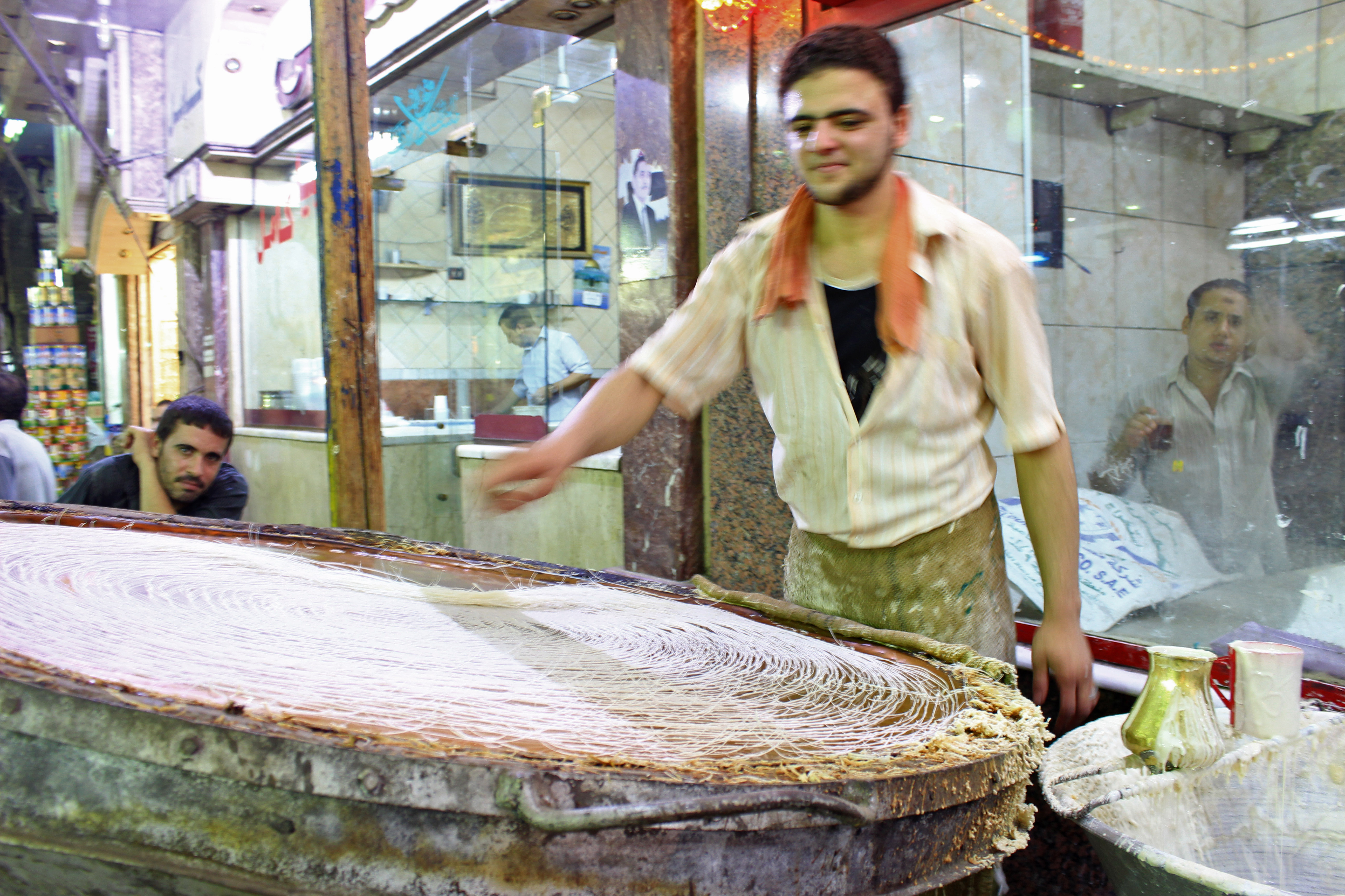 A Kunafa maker in Downtown Cairo. Kunafa is a traditional dessert in Egypt, Syria and other neighboring countries. This is an image of "African people at work" from Egypt